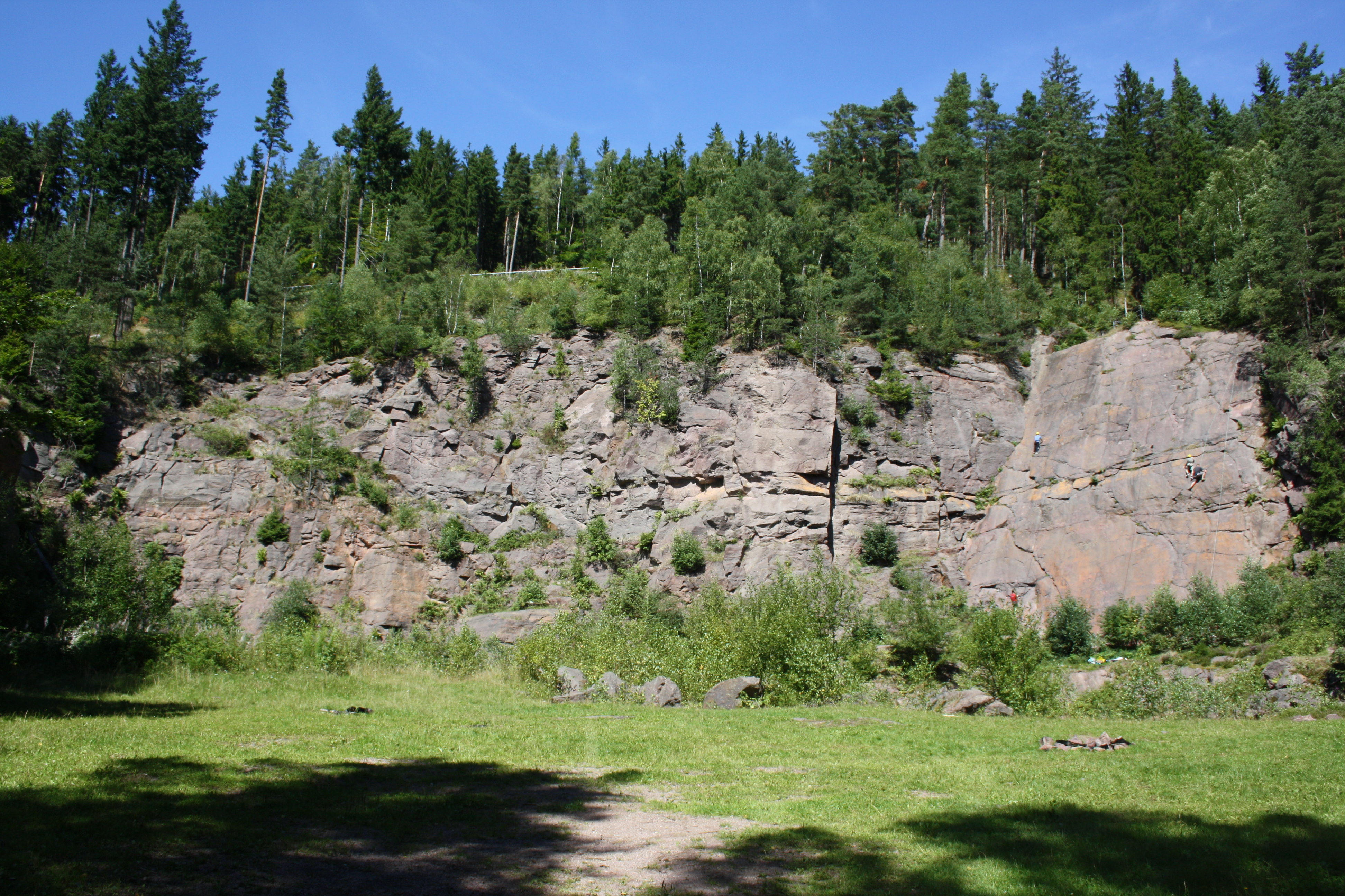 Germany, Thuringia, Ilmenau: "Ratssteinbruch" near road B4.